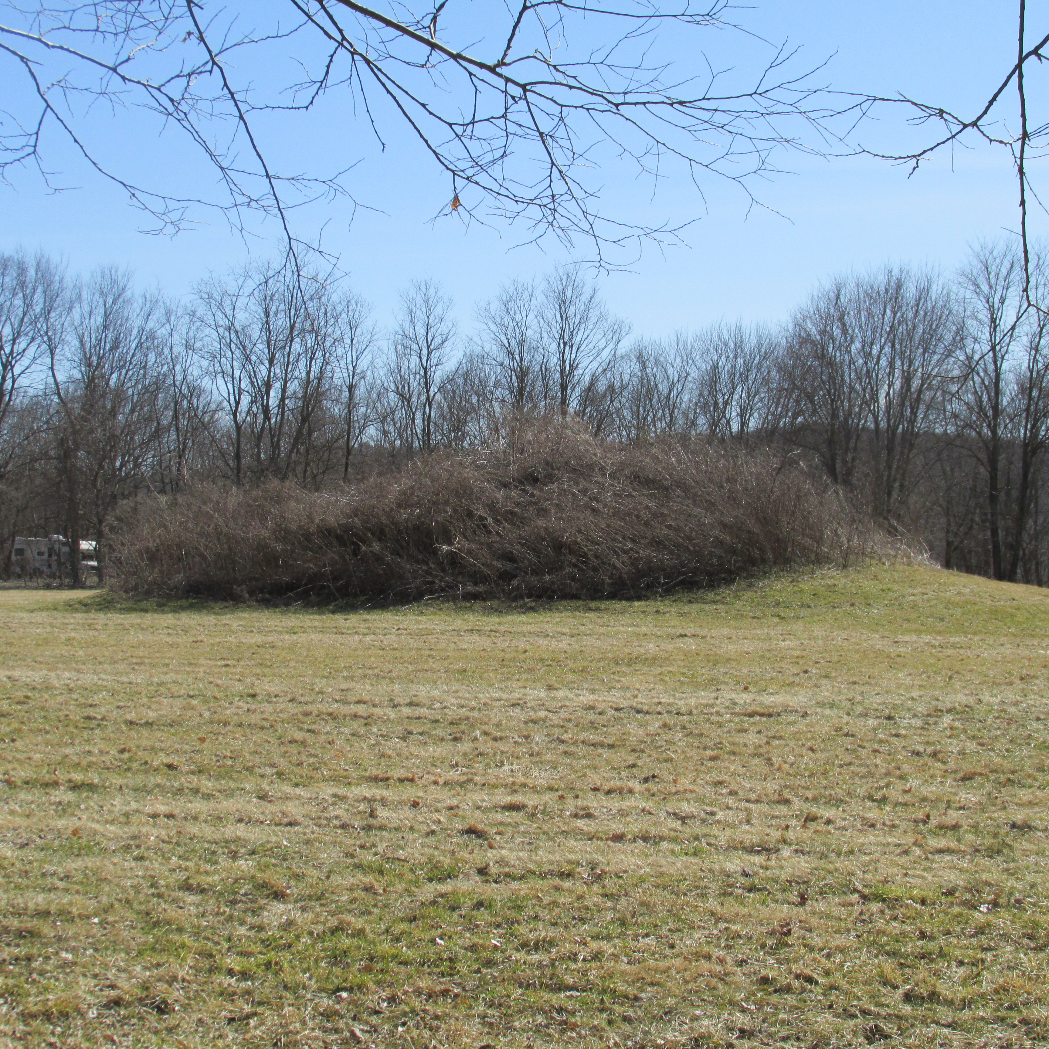 Edgington Mound located east of Neville in Clermont County, Ohio.